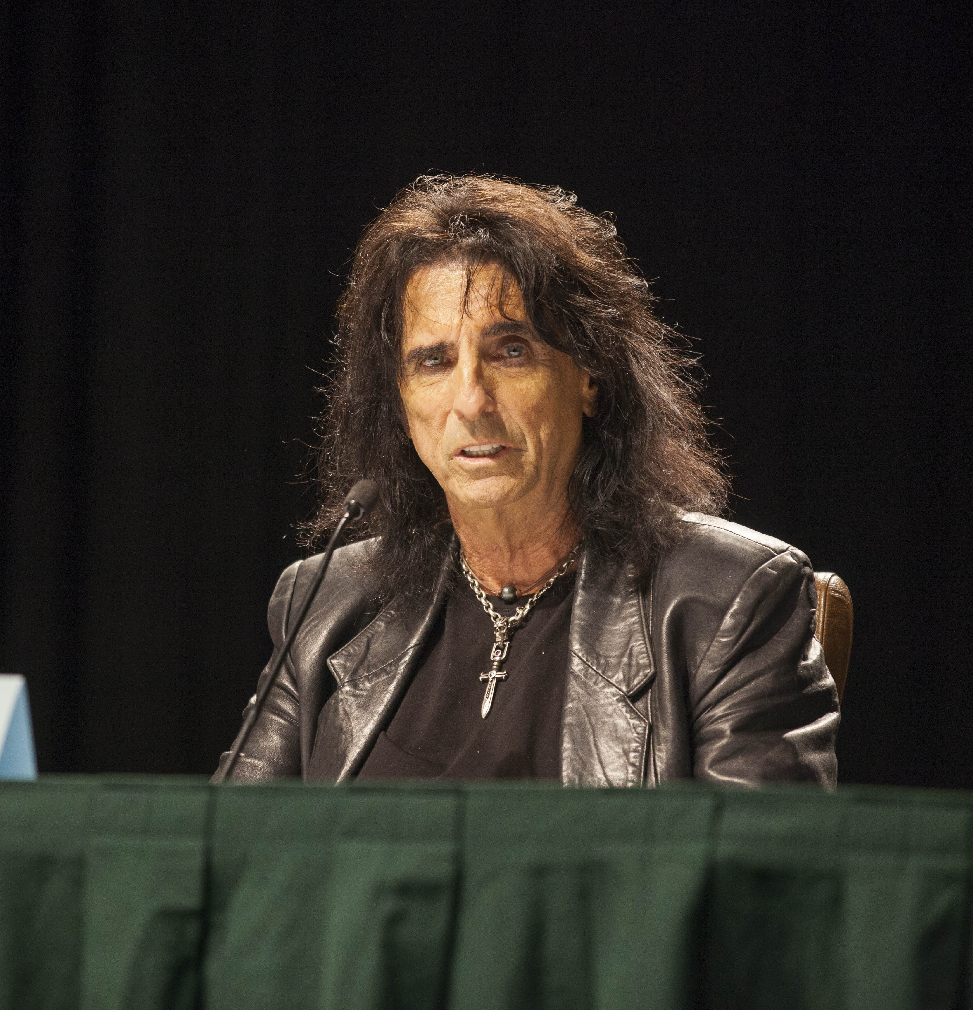 Alice Cooper talks about his tour.